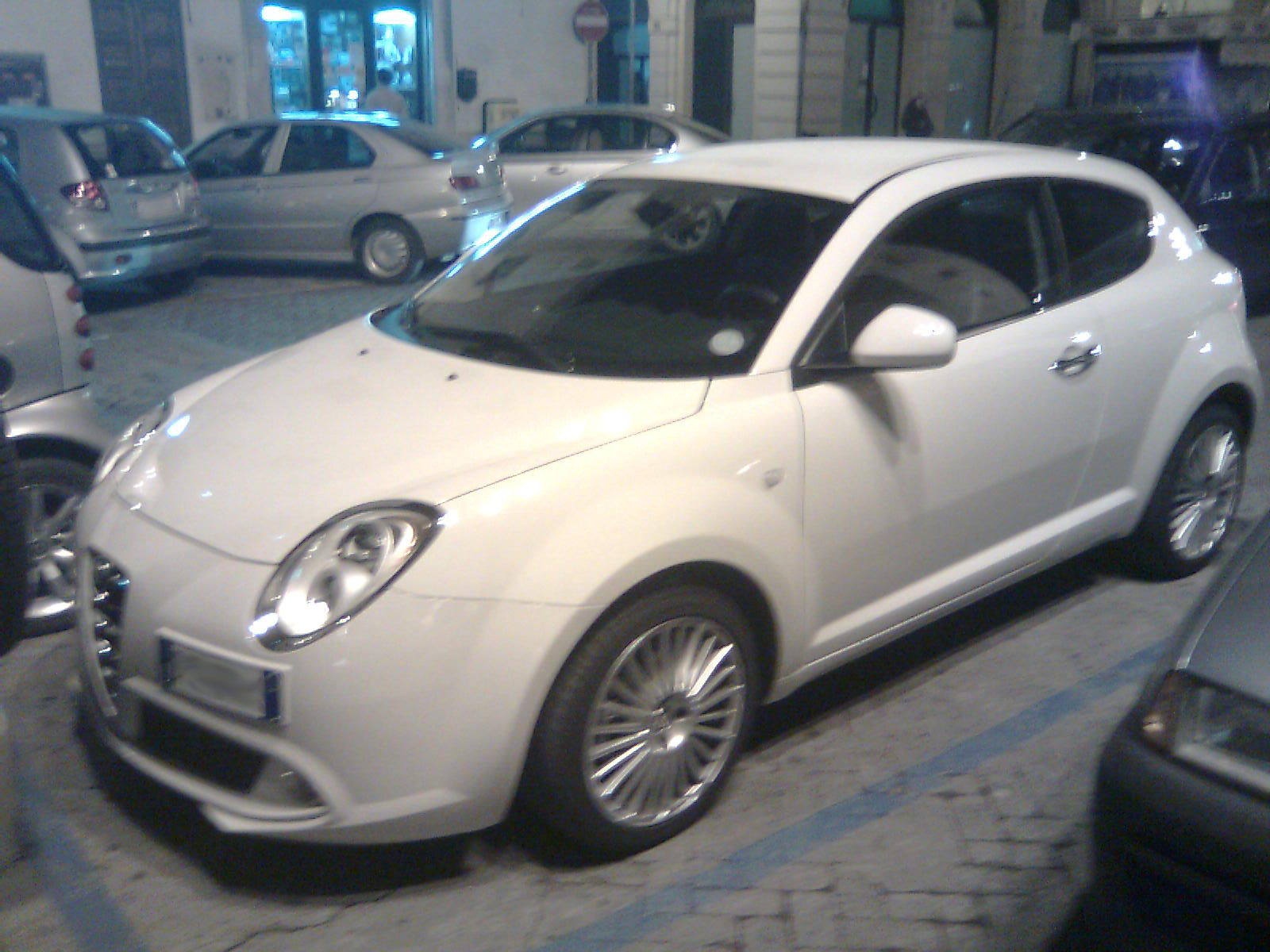 Alfa Romeo Mito White